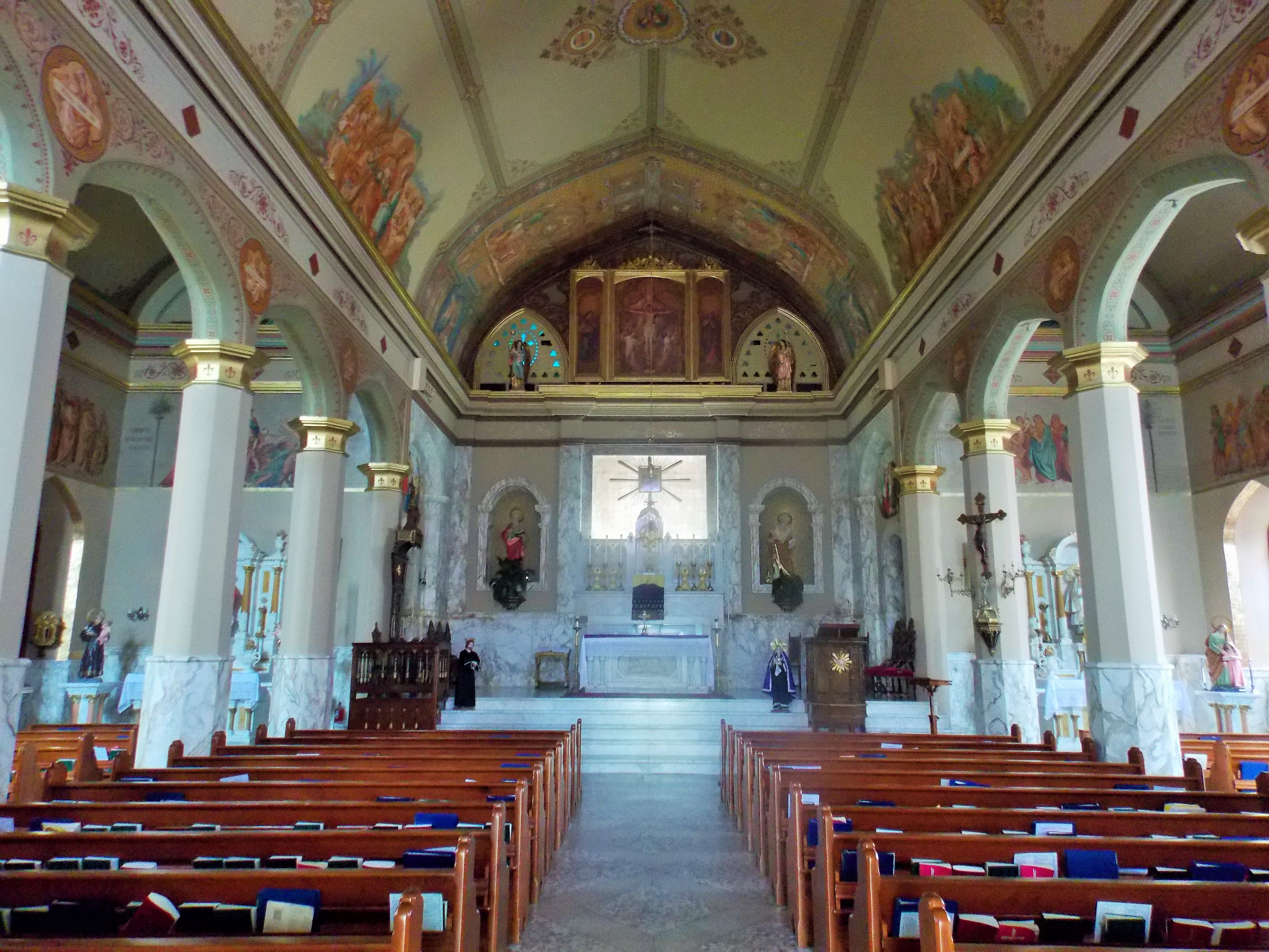 The interior of Saints Peter and Paul Cathedral in Charlotte Amalie on the island of St. Thomas in the United States Virgin Islands.